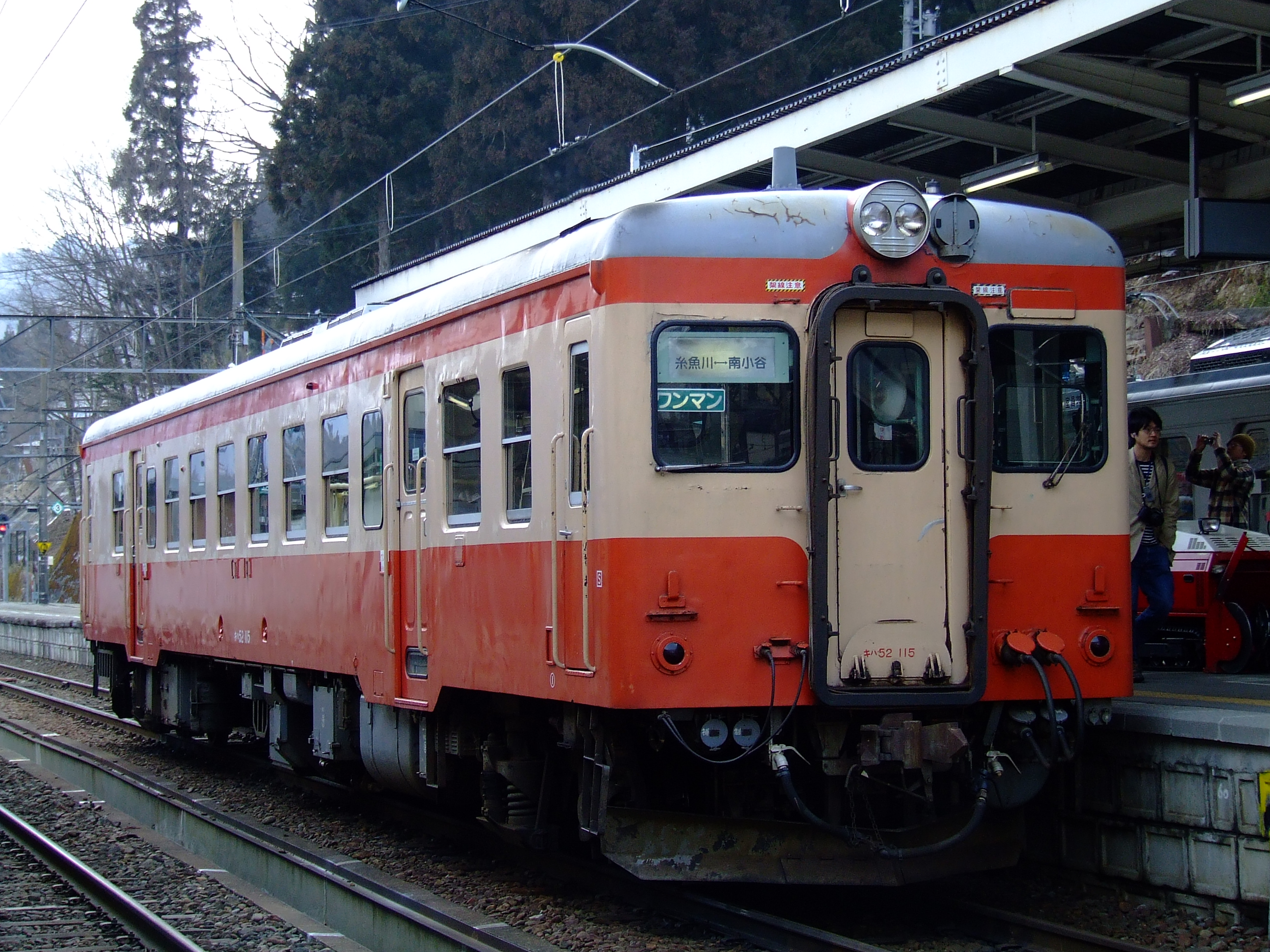 JR West KiHa 52 DMU car KiHa 52 115 at Minami-Otari Station on the Oito Line